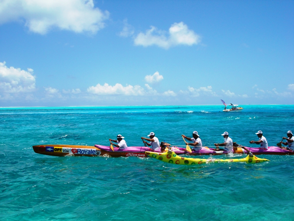 Hawaiki Nui Va'a is an outrigger canoe race that happens once a year in French Polynesia. It takes place over 3 days connecting the islands of Huahine, Raiatea, Taha'a and Bora Bora in a hommage to ancient times. It is a huge party in these islands with Bora Bora being the final leg and the big finale at Matira Beach! This year 83 canoes seating teams of 6 paddlers competed to win this prestigious race with a couple of teams from Hawaii and New Zealand as well as New Caledonia. Tahiti's Shell Va'a team won for the 3rd year in a row. They are proving to be pretty unbeatable at the moment as they also won Molokai in Hawaii for the second year in row earlier this month. At Hotel Bora Bora, we are the last point before Matira Bay and the arrival at the public beach so we had staff drumming at the point to encourage the paddlers to the end and a big tahititan oven for all our guests on the beach. You will notice from these pictures that the arrival side of the point was a beautiful blue sky whereas the other side was very grey and cloudy making for a pretty dramatic setting!